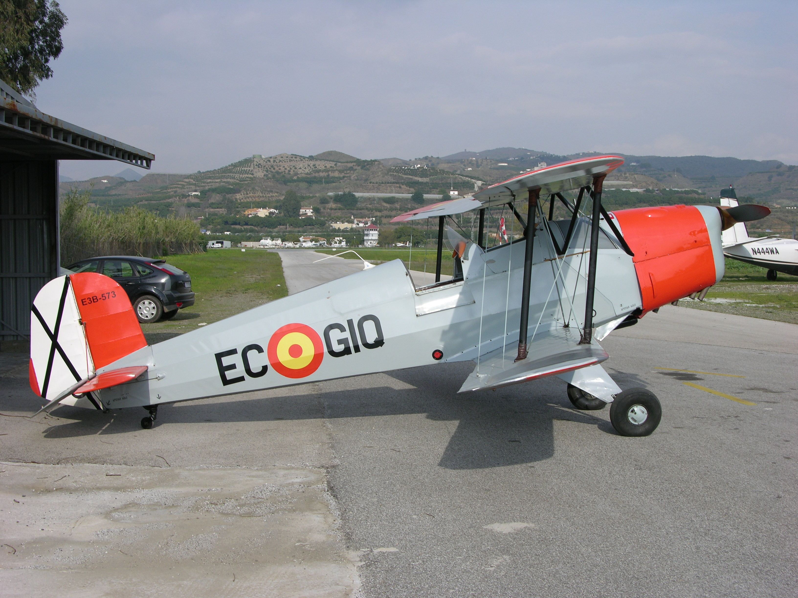 Taken at a very hard to find airfield at Velez Malaga, Spain, in December 2006. This is a Spanish built 1930s German trainer aircraft, the Bucker Jungman, the CASA 1.131E-2000. E.3B-573, now registered as EC-GIQ was in immaculate condition and the proud owner was happy to open his hangar and drag it out to be photographed. The type was in use until the late 70's at least.